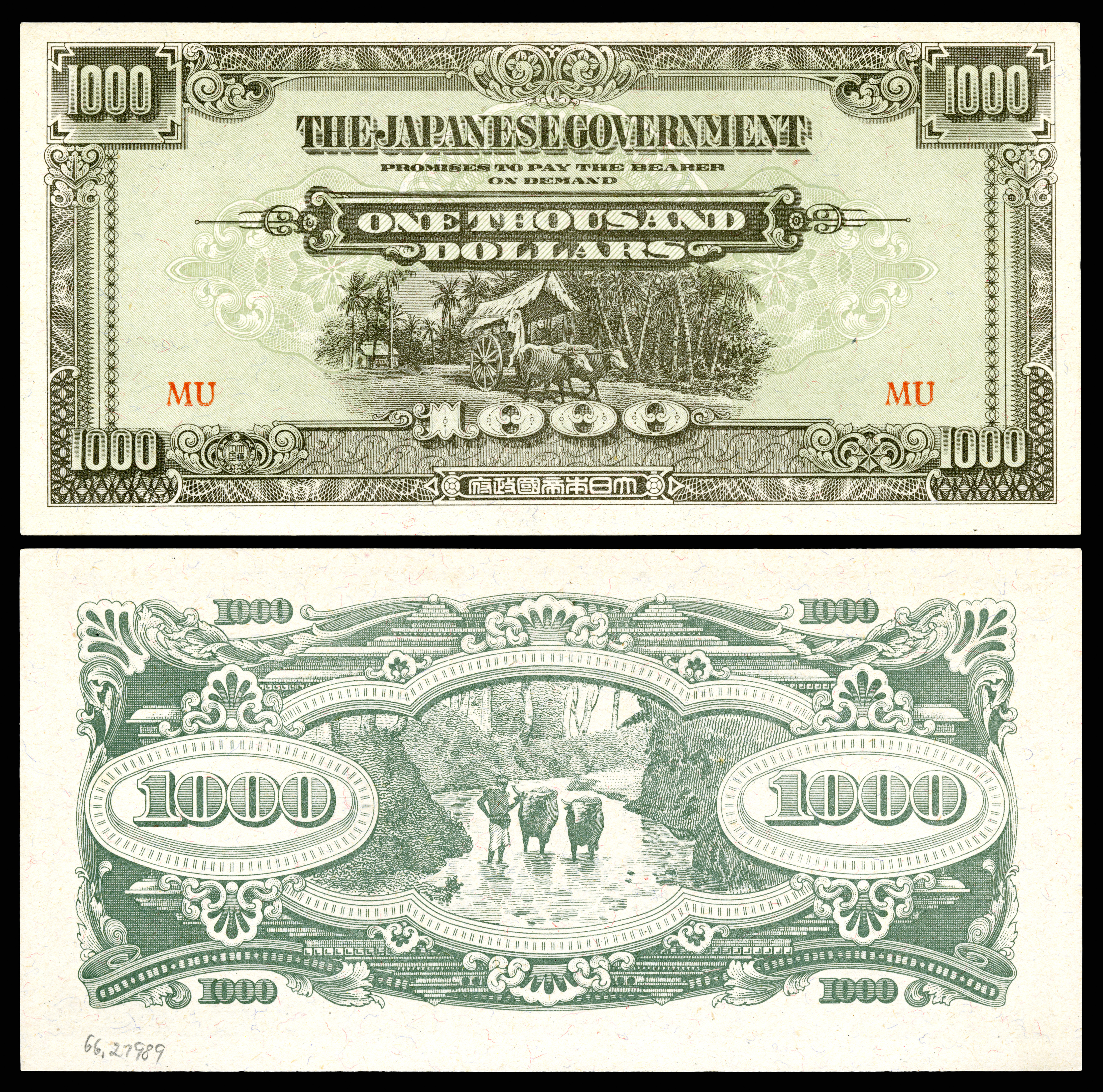 Malaya-Japanese Occupation-1000 Dollars ND (1945) The Japanese government-issued dollar in Malaya and Borneo, part of the Japanese invasion money of World War II, was issued between 1942 and 1945 by the occupying Japanese government.